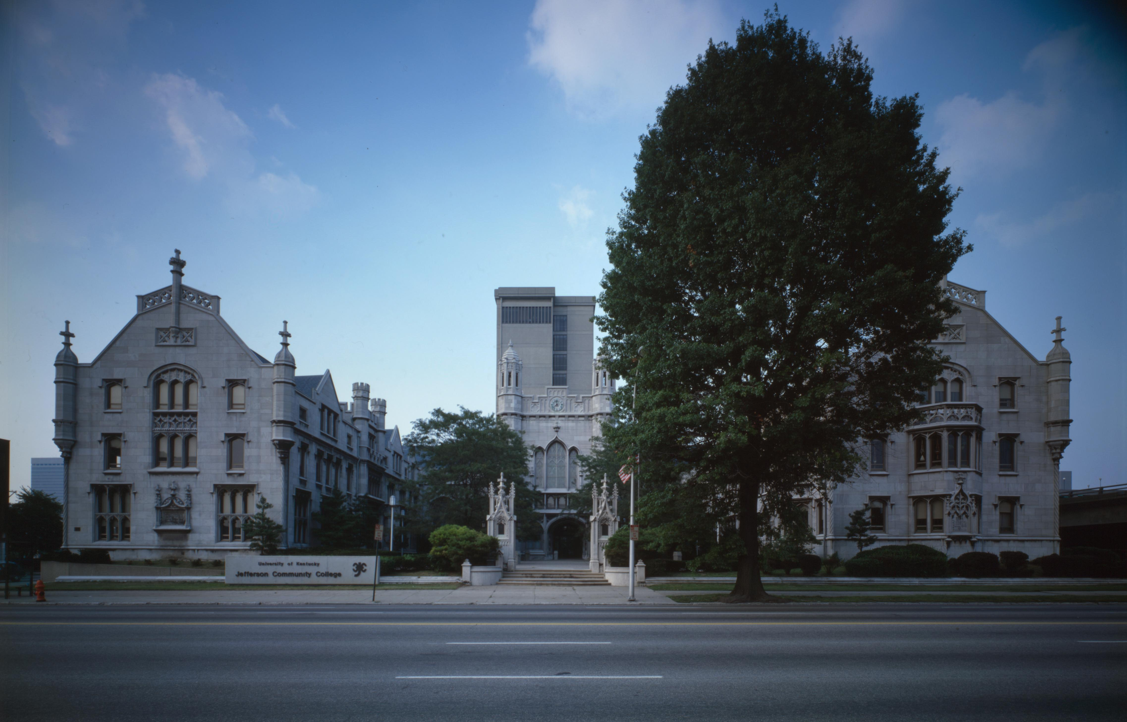 Streetside view of buildings on the campus of the Old Presbyterian Theological Seminary, located at 109 E. Broadway in Louisville, Kentucky, United States. Built in 1903, the campus is listed on the National Register of Historic Places.